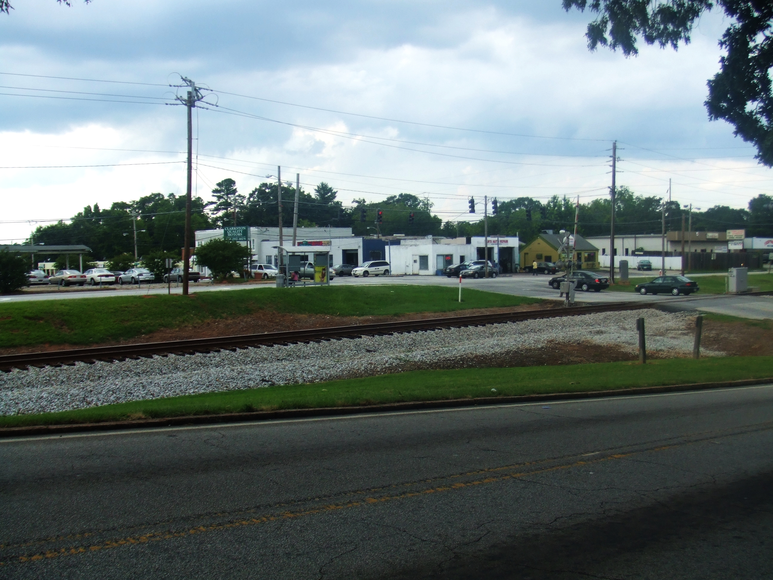 Clarkston, Georgia